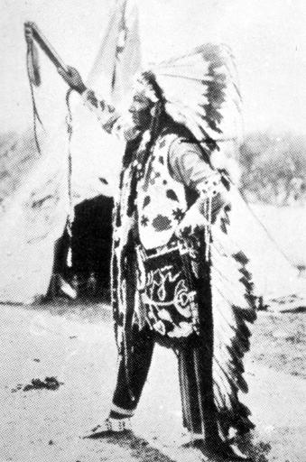 Chief White Bird of the Nez Perce Indians.